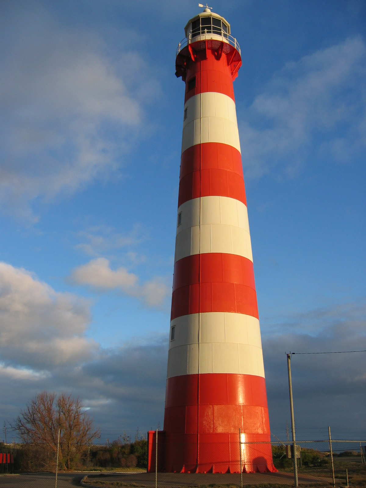 Point Moore Lighthouse, Geraldton, Western Australia.